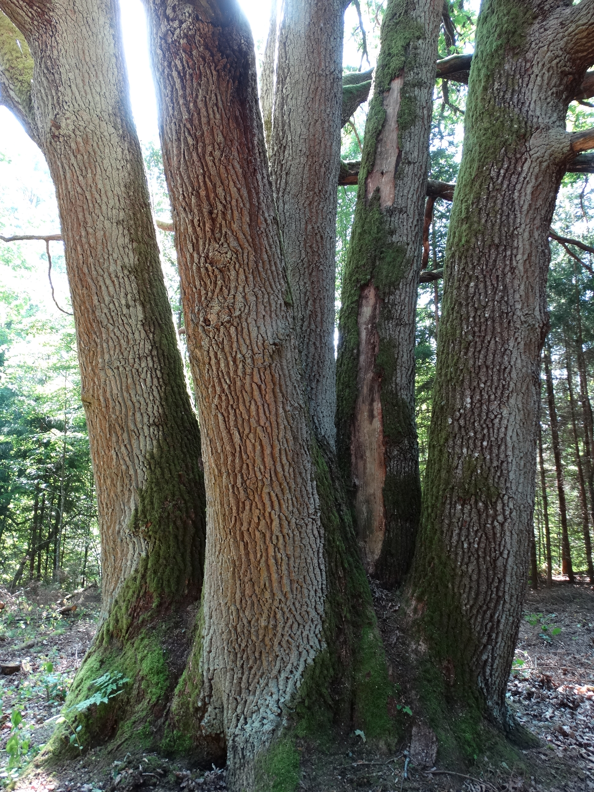 Elmė 6-trunk oak, Anykščiai District, Lithuania